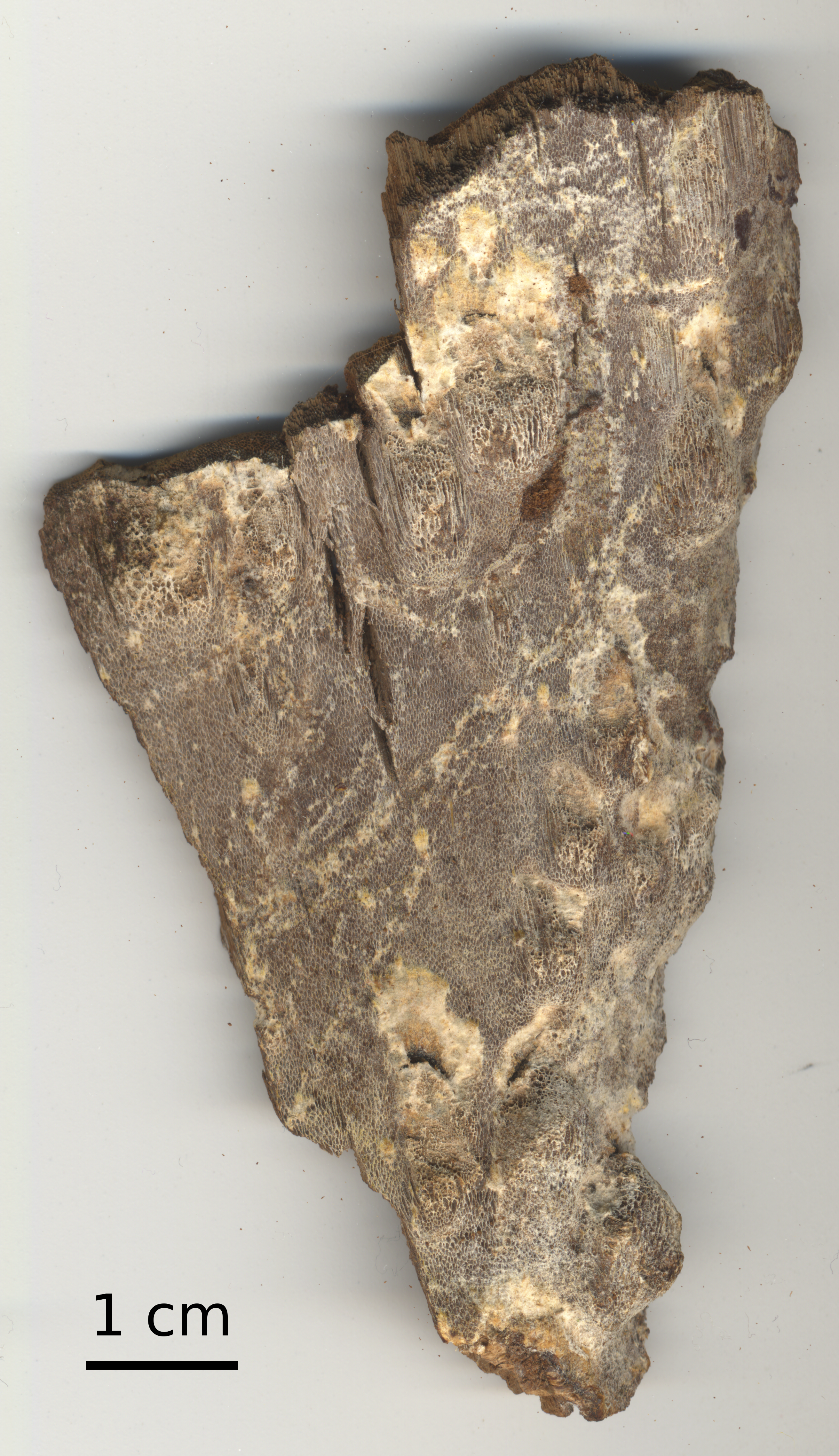 Sample of chaga (Inonotus obliquus) fruiting body found on a dead birch